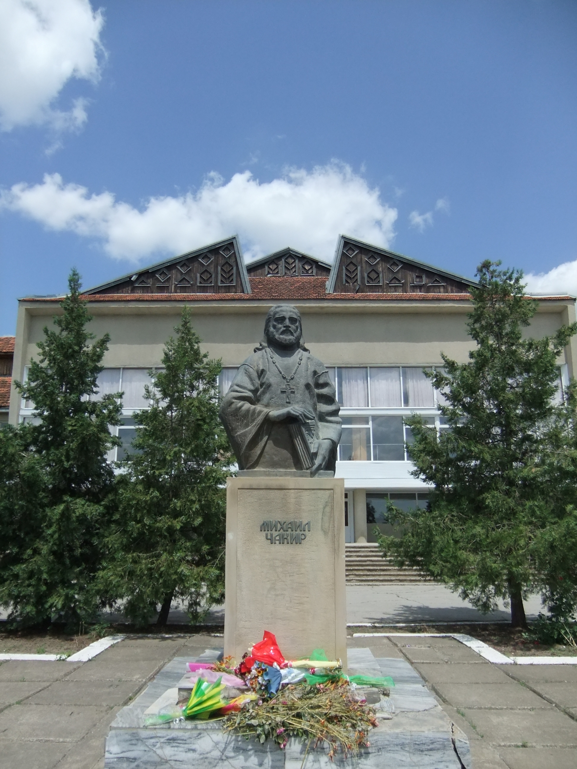 Ceadîr-Lunga. Сultural centre and the monument of Mihail Chakir (Gagauz:Mihail Çakir)